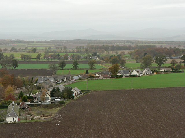 Collace This view of the village is taken from the path to Dunsinane Hill.